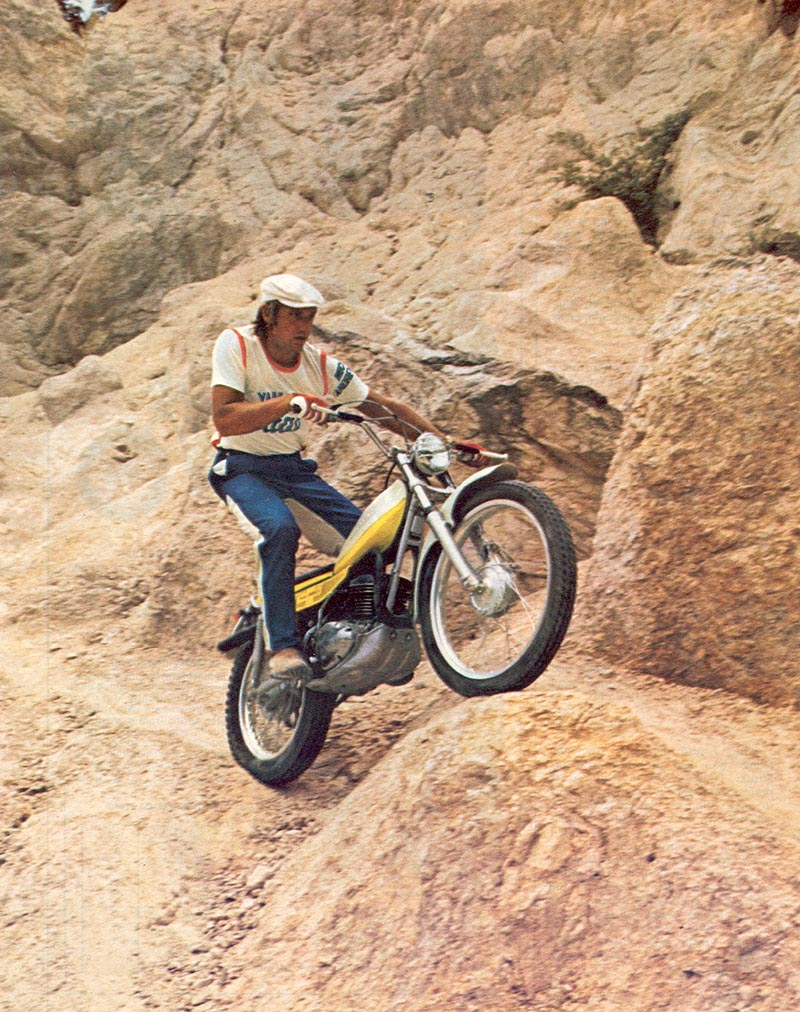 Mick Andrews on a Yamaha TY250 by 1974